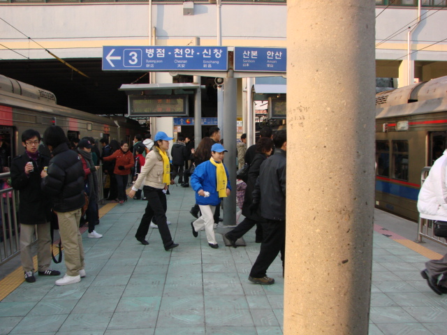 Geumjeong Station, Seoul Subway Line 1 and Line 4. In this picture, the left one is Line 1, the right one is Line 4. Most of rail club members in Korea recommend this station as the principle of subway transferring.